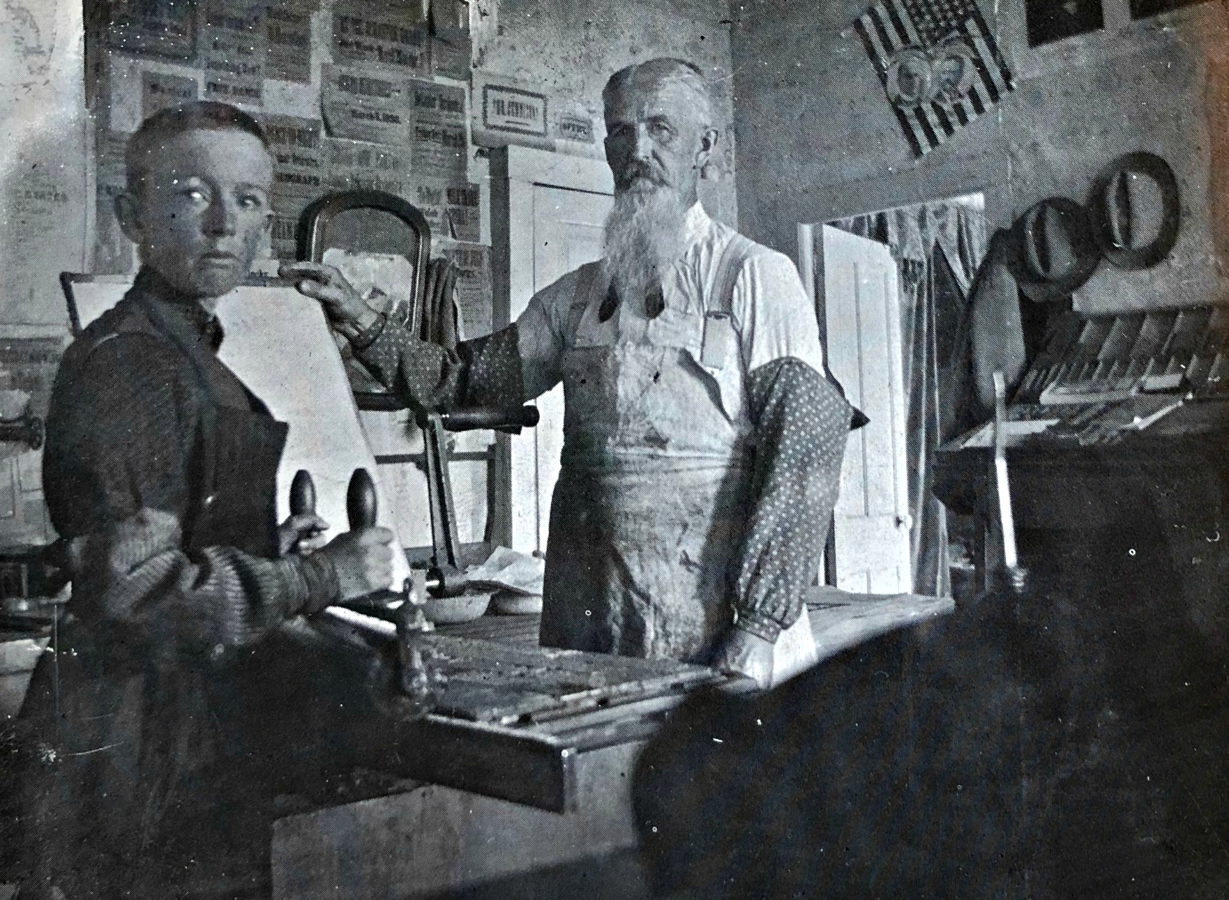 The Delamar Lode newspaper office, 1890s. Delamar, Nevada. The young assistant, to the left, is known as a printer's devil.